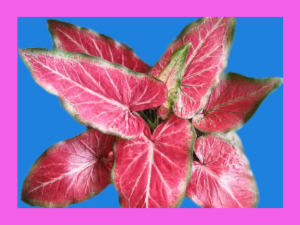 yuw